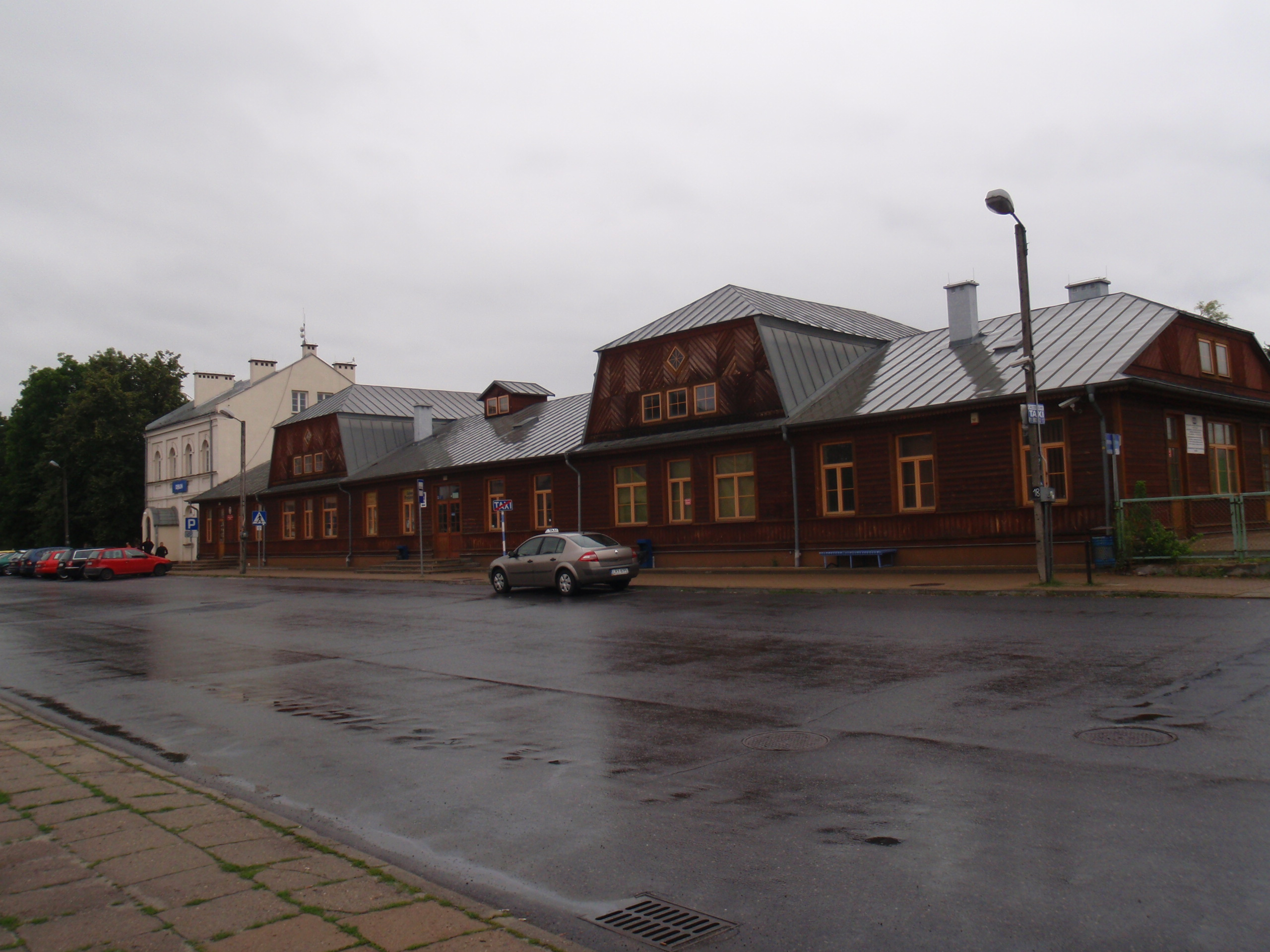 Railway station in Dęblin